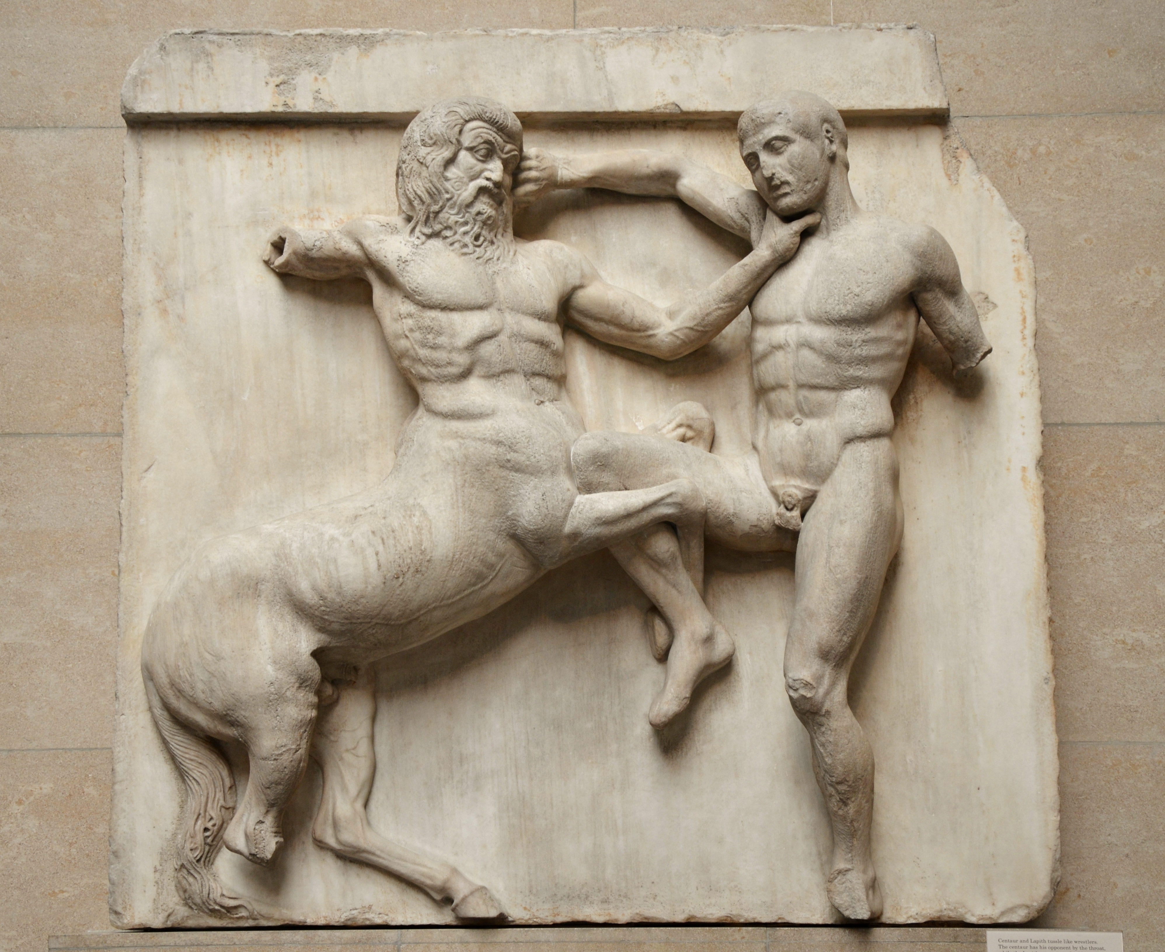 Centaur and Lapith. The Parthenon sculptures, British Museum. South metope XXXI